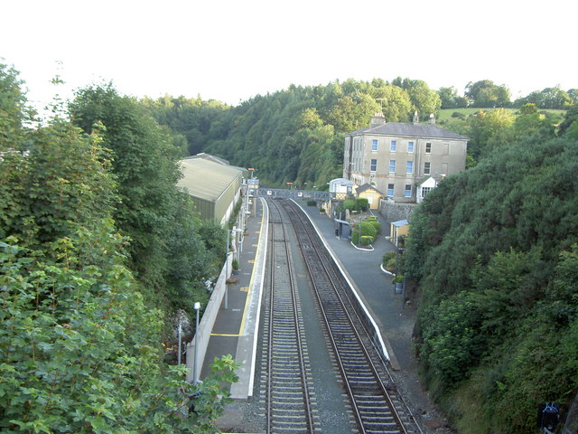 Rathdrum railway station